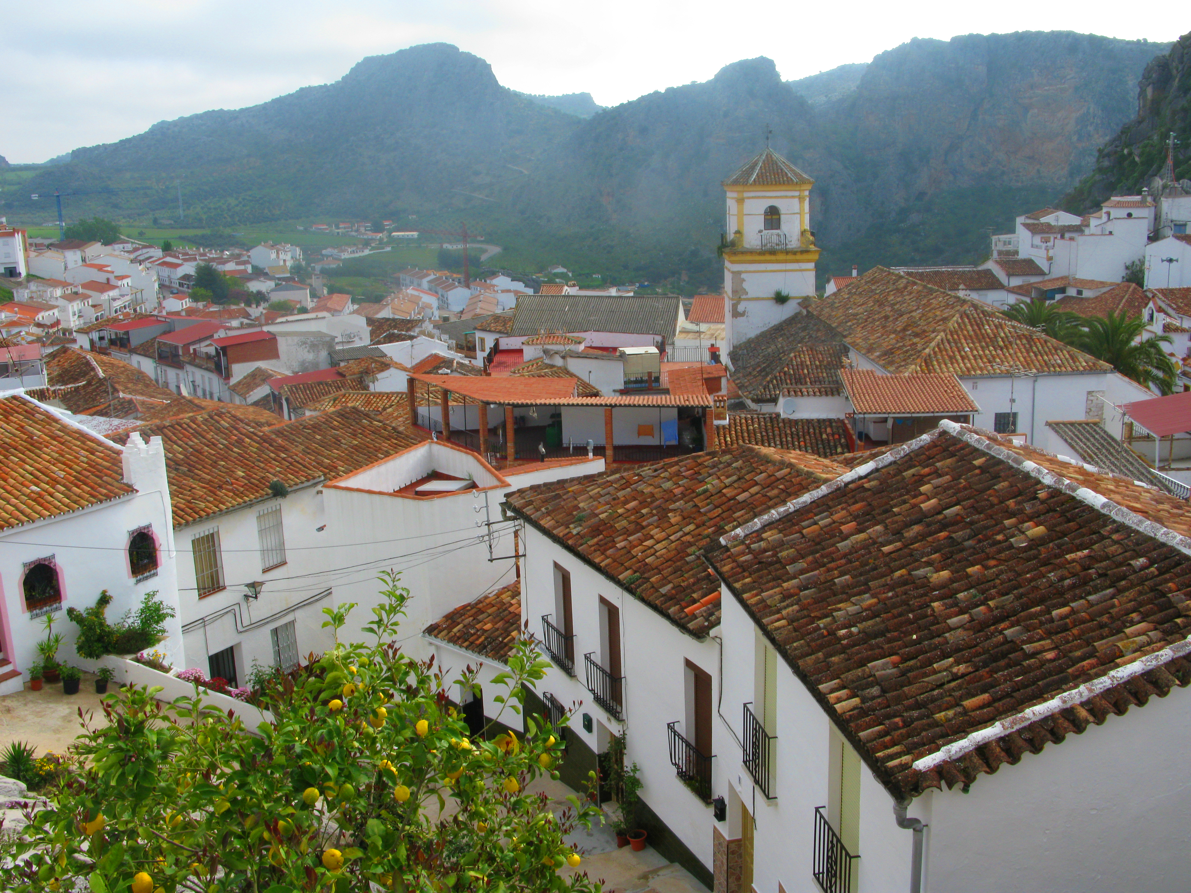 View from Las Golondrinas